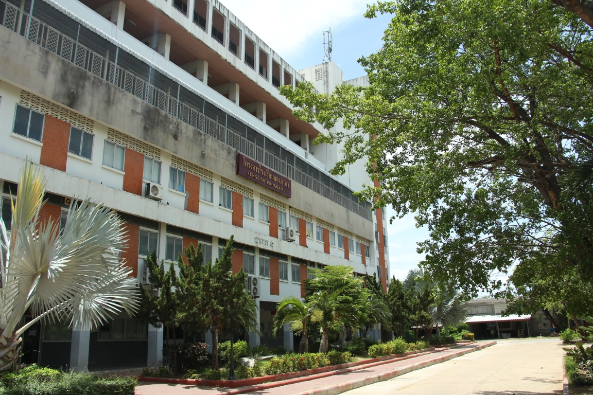 Visuttharangsi School in Kanchanaburi